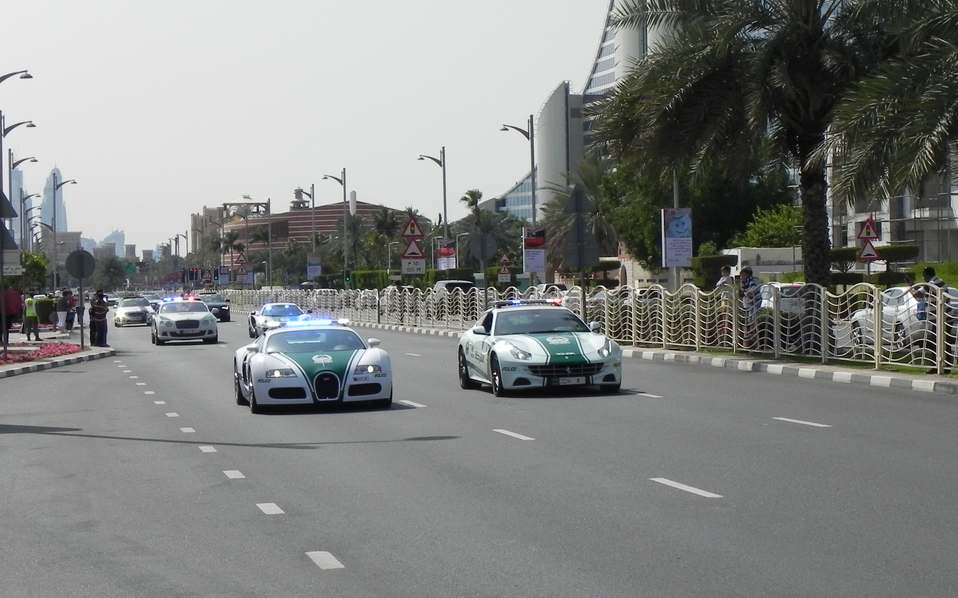 Dubai Police at work